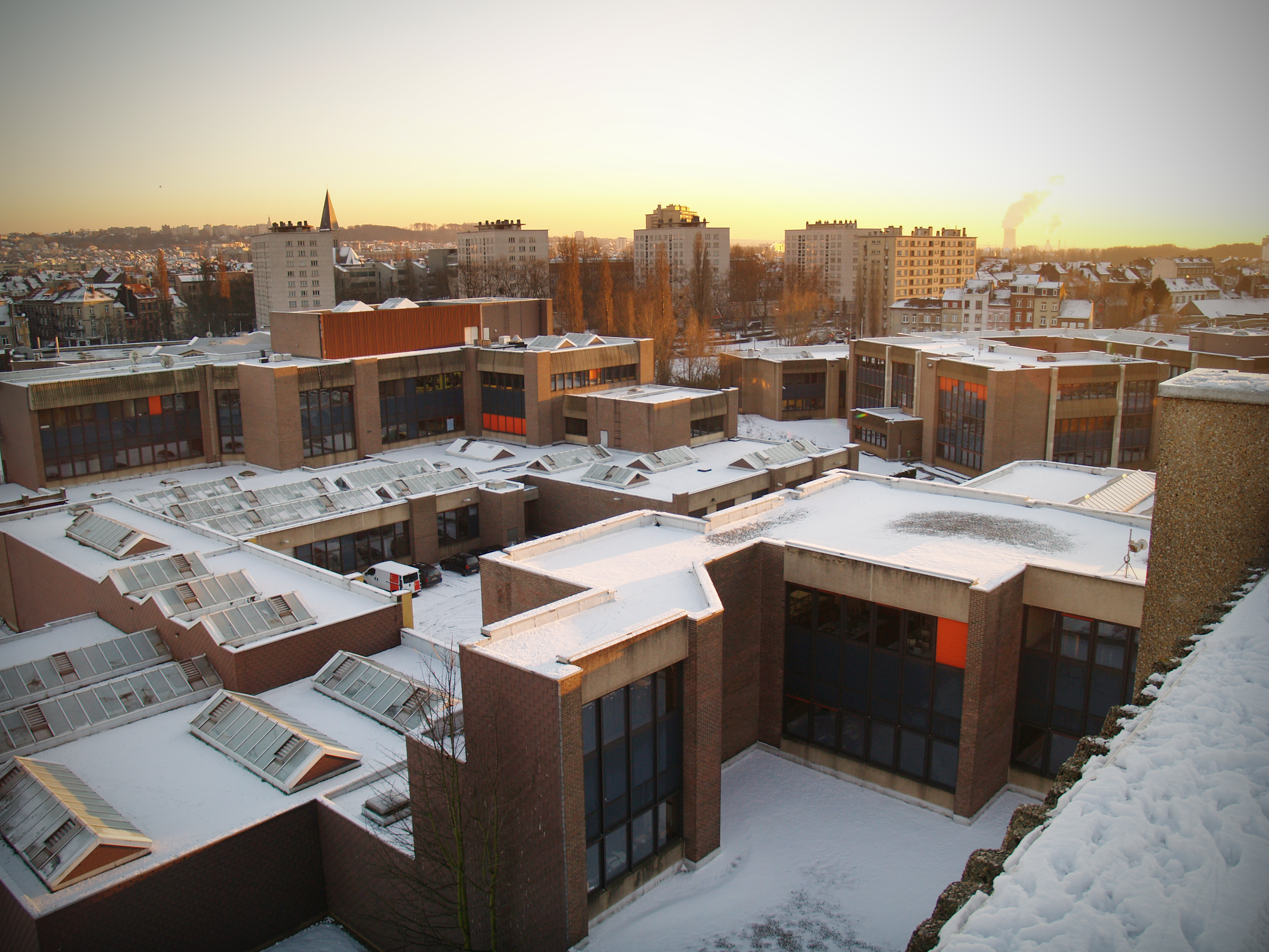 Building of Applied Sciences, Erasmushogeschool Brussel